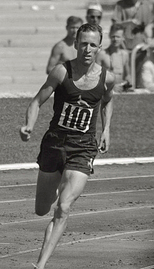 The first round of the qualifications of 400 metres men sprint: Gordon Day. Rome, 3 of September 1960.